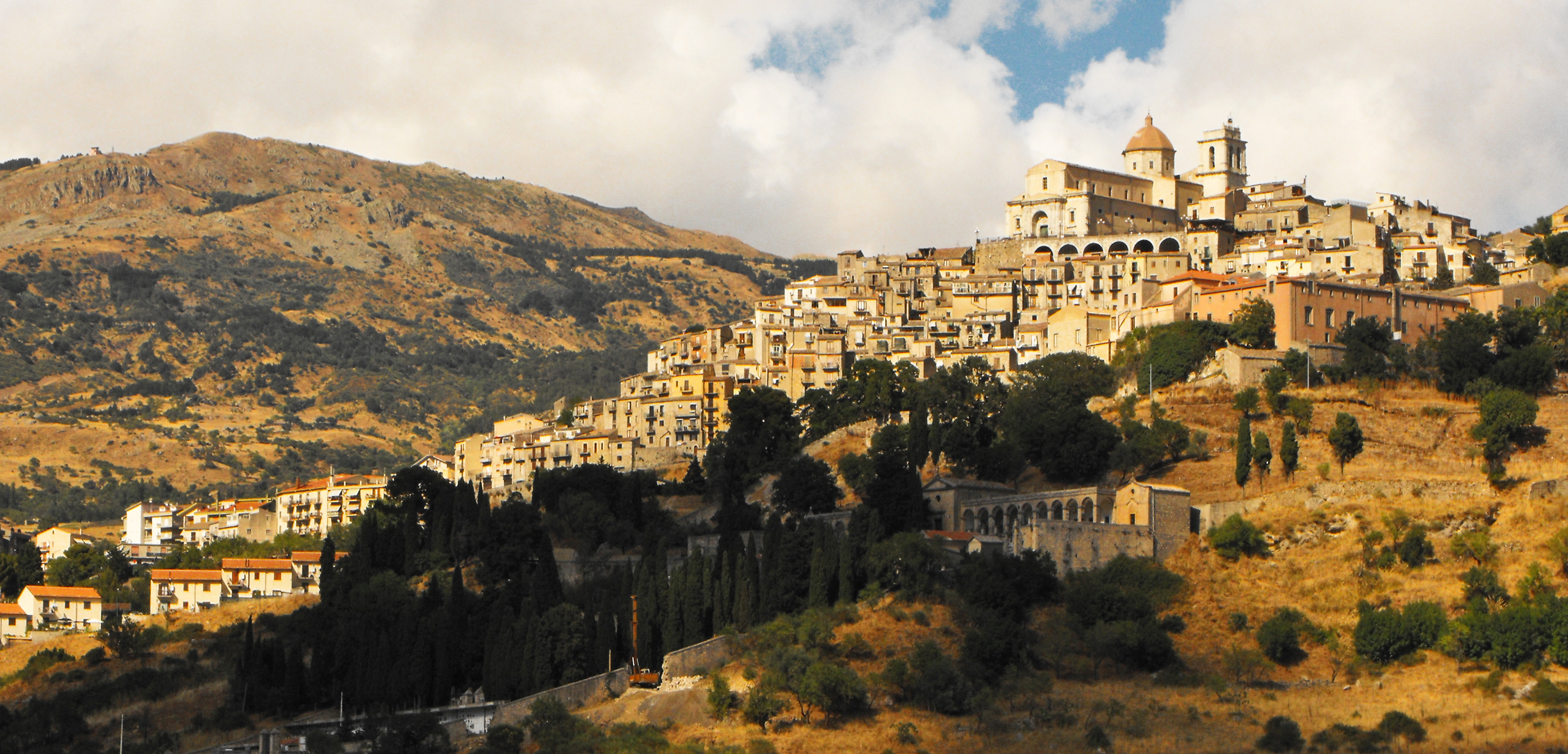 Petralia Sottana. Sicily, Italy. Jul 2010